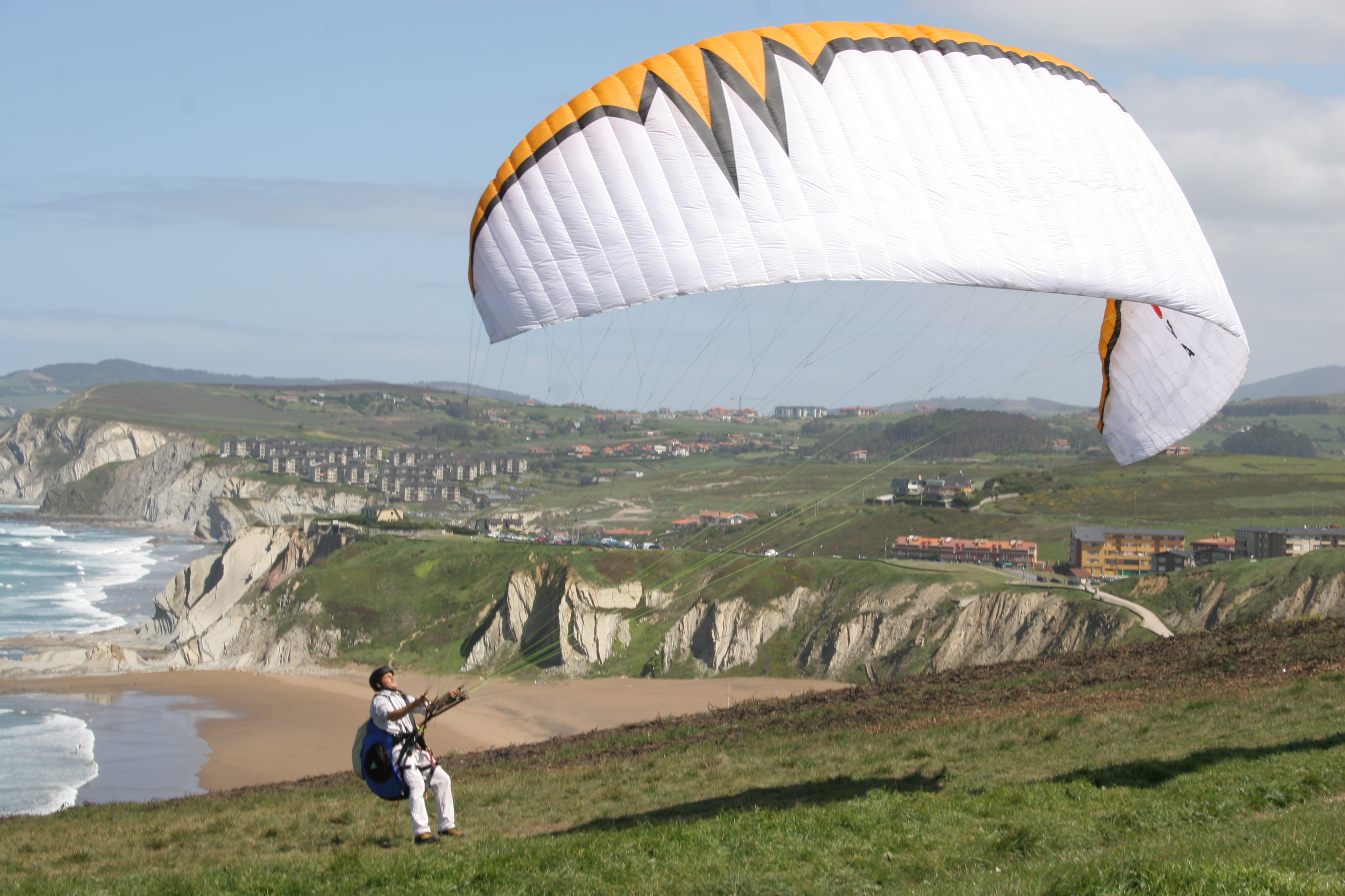 Paragliding in Askorri / Azkorri, Getxo, near Barinatxe / La Salvaje Beach, with Sopelana at the background. Basque country (Spain).